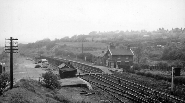 Beeston (West Yorks.) Station (remains). View northwards, towards Leeds. Doncaster - Wakefield - Leeds main line. Station closed to passengers 2/3/53, goods 1/1/62. (It looks as if it may have been a house by the date of the photograph).